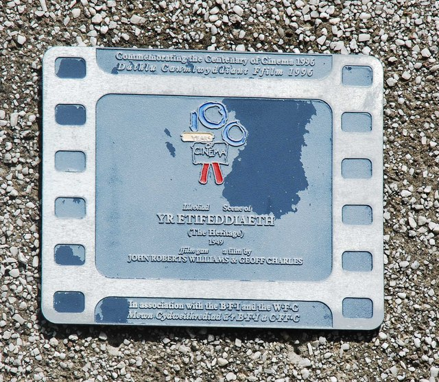 "Yr Etifeddiaeth" - "The Heritage". This plaque on the wall of Llangybi School 359930 commemorates the making of the 1949 film, which depicted the vanishing way of life of the Welsh countryside and was the first documentary to be narrated in Welsh.